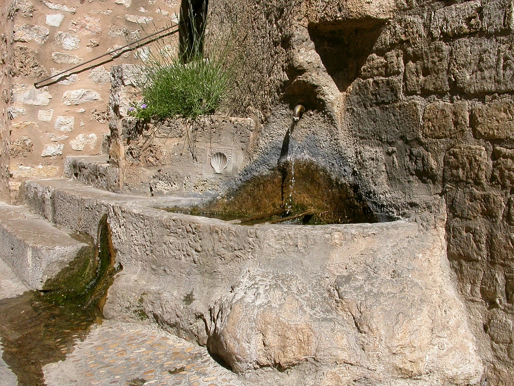 Well of the Way of St. James, Saint-Guilhem-le-Désert, Languedoc-Roussillon, France